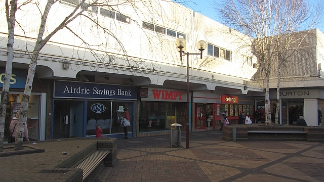 This is the way the world ends - not in a bang but a Wimpey